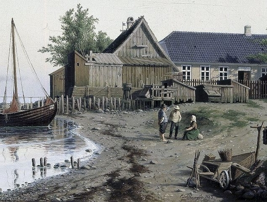 The beach where Taarbæk Havn was shortly after built in Taarbæk, Denmark